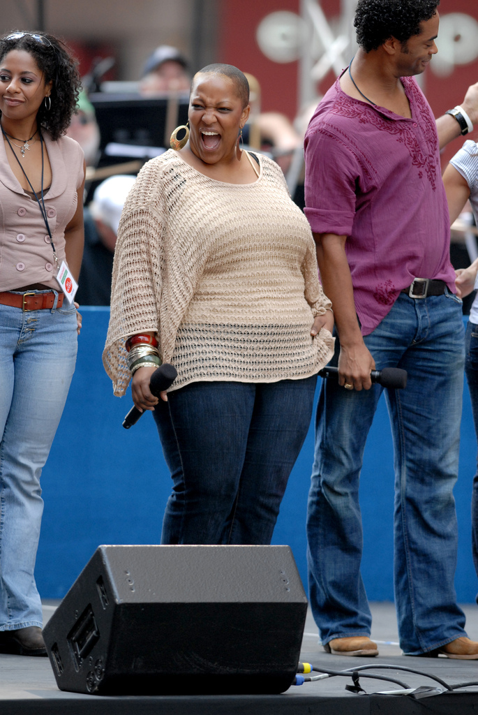 Frenchie Davis, Destan Owens and the cast of RENT performs "Seasons of Love" at Broadway on Broadway, September 10th 2006.